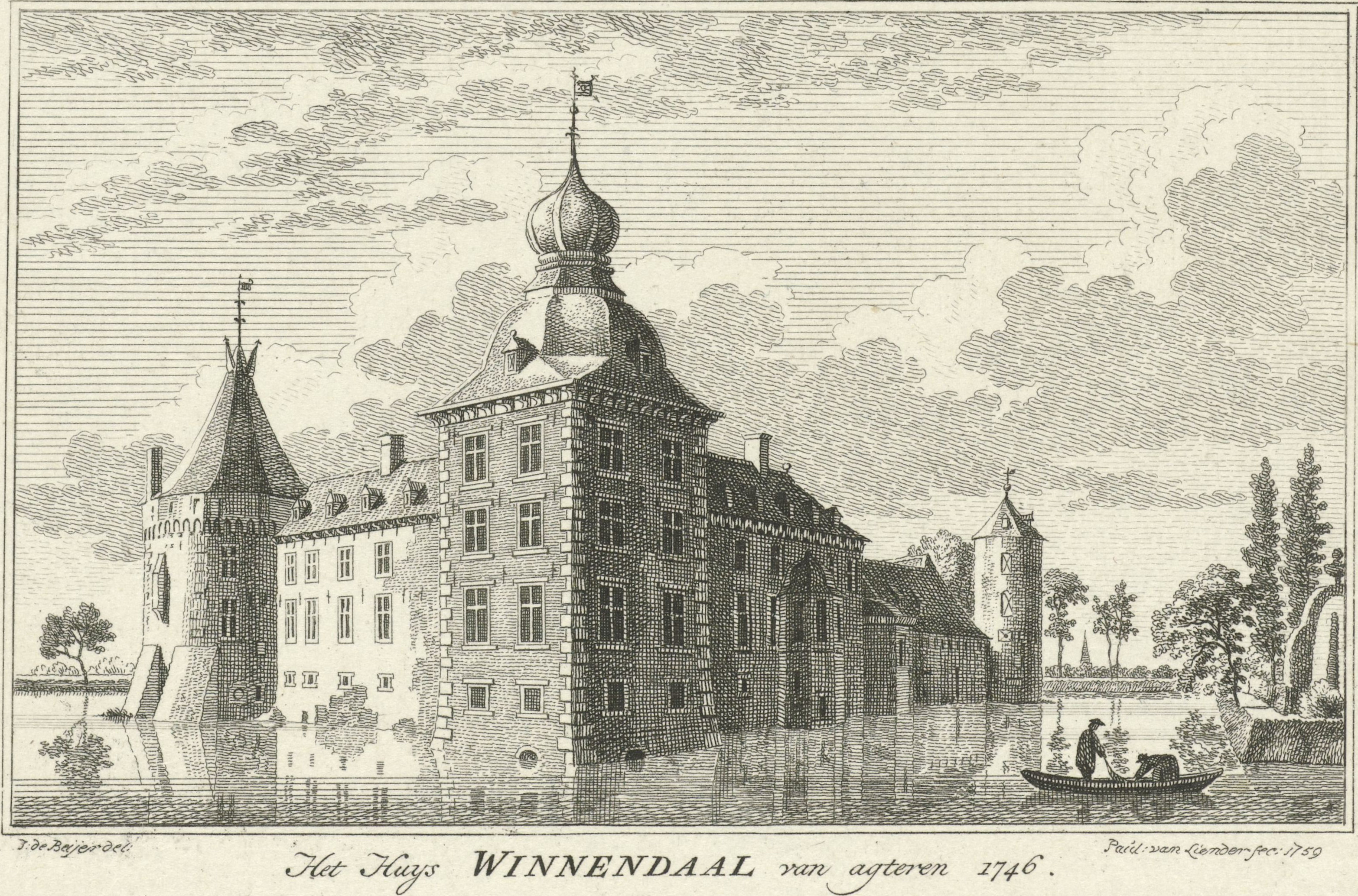 Engraving of Winnenthal Castle, 1746, northern aspect